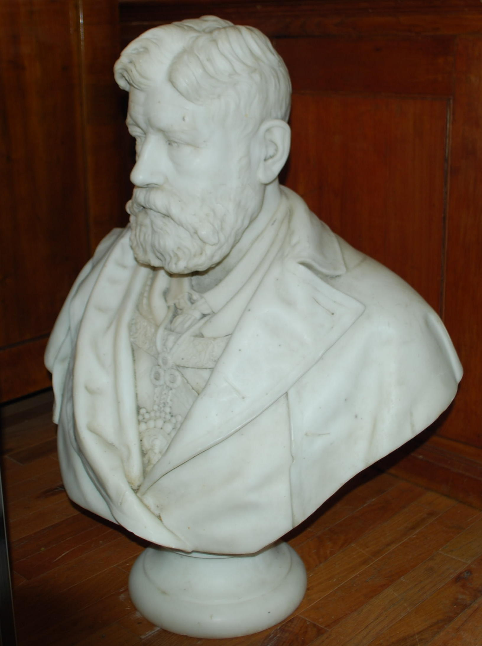 Statue of James Carnegie, 9th Earl of Southesk, by William Grant Stevenson.